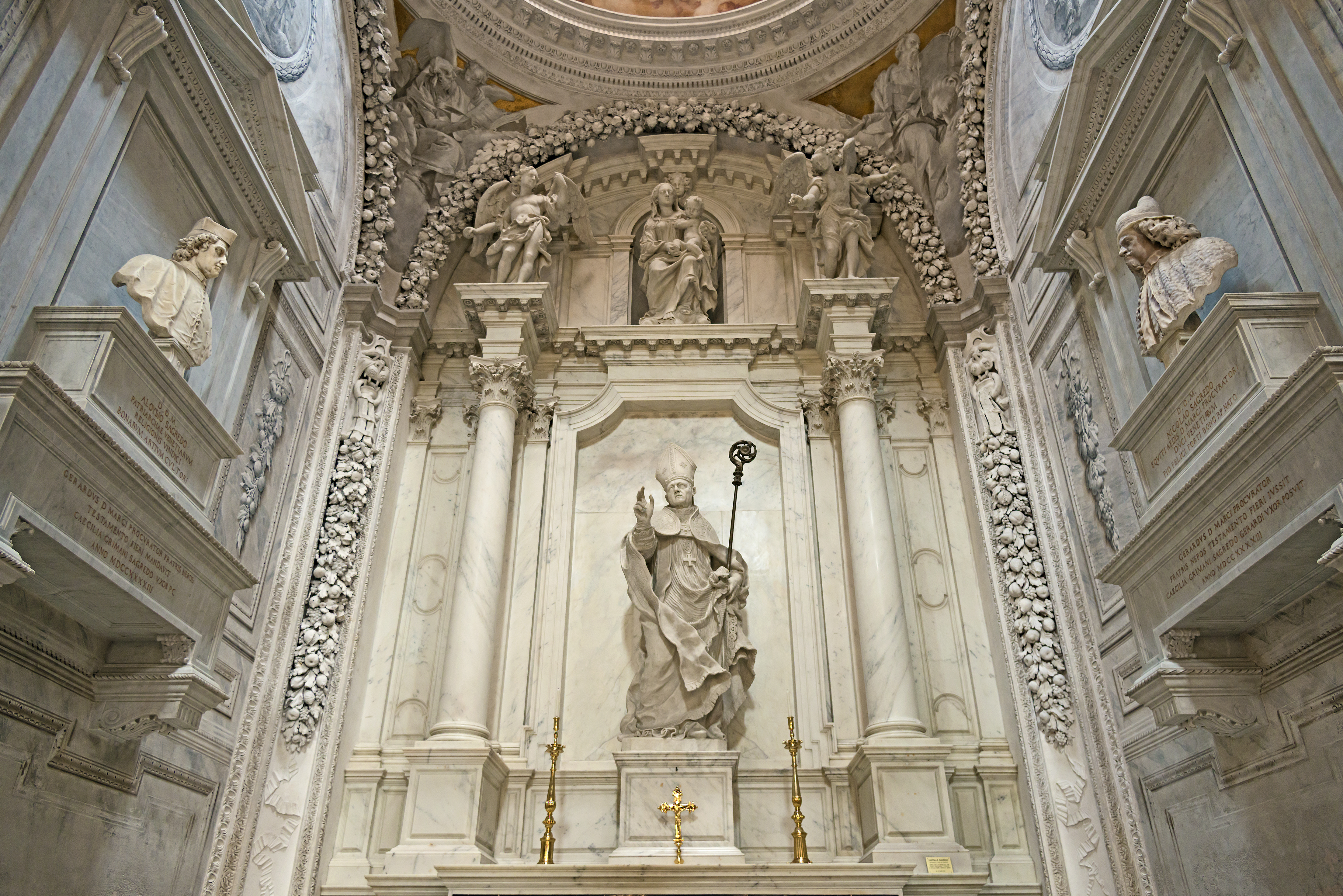 Cappella Sagredo of San Francesco della Vigna (Venice).